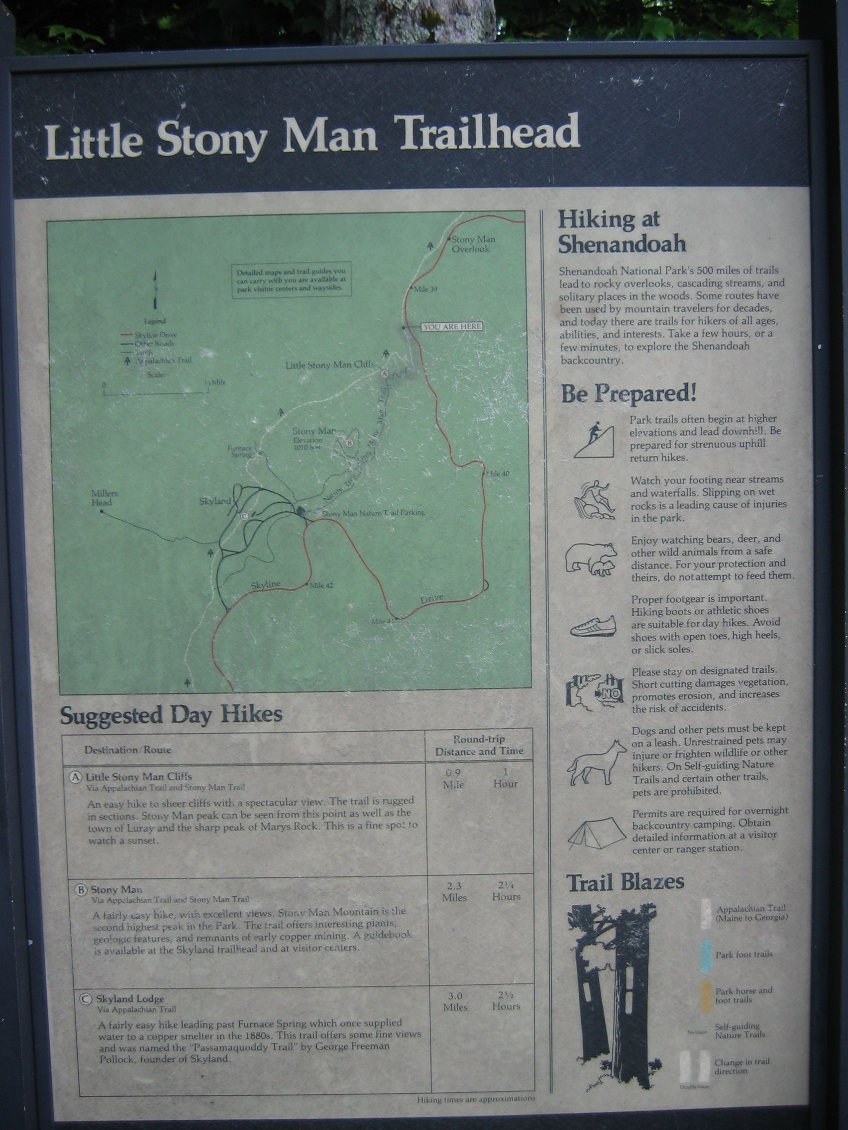 Starting point of the Little Stony Man nature trail